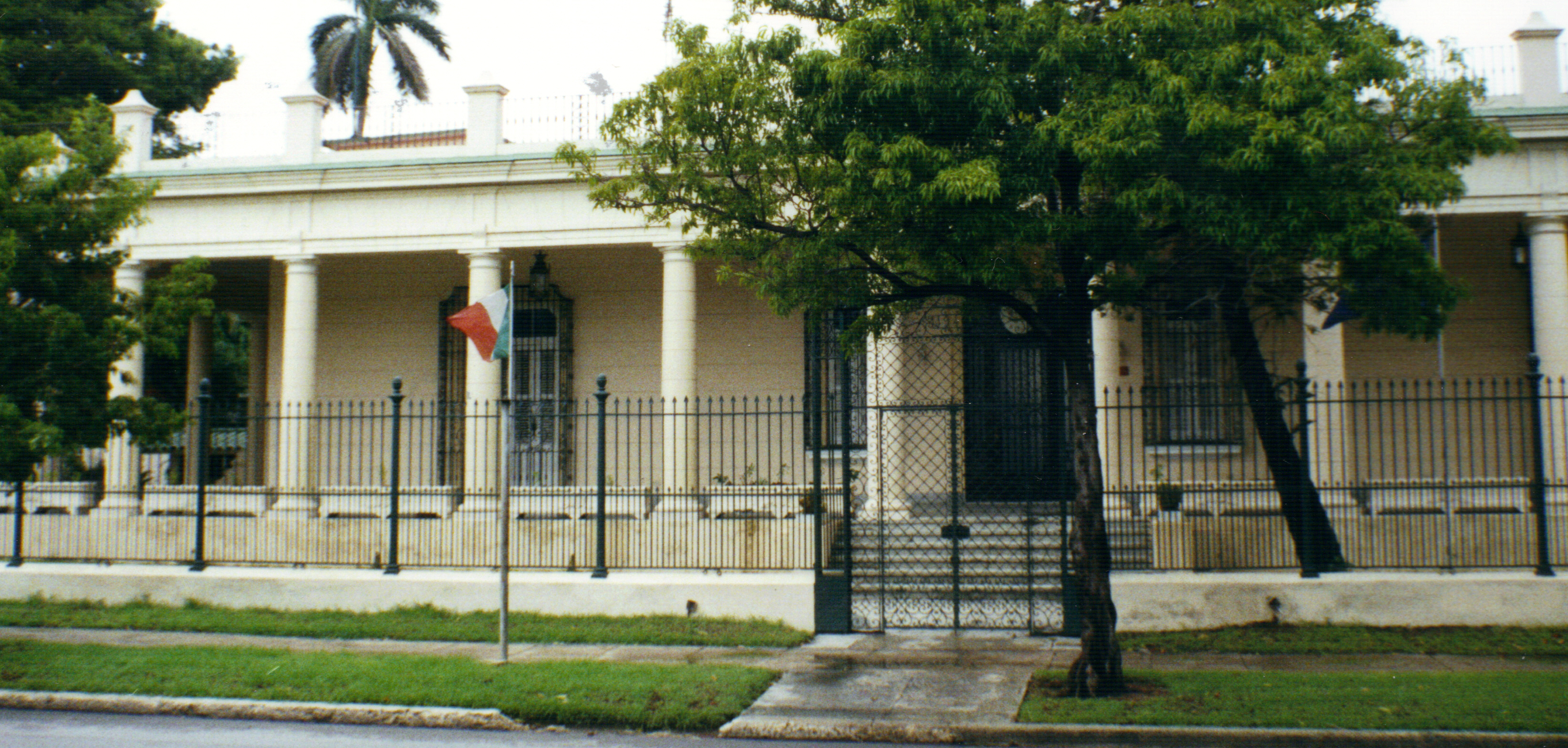 Mansion in Miramar, Havana, 2002. Scan from my photo album (Embassy of Italy in Havana, Cuba)